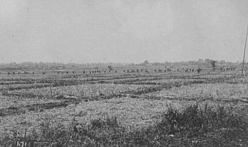 1st Nebraskan Volunteers advancing on Santo Tomas, Pampanga; May 4 1899